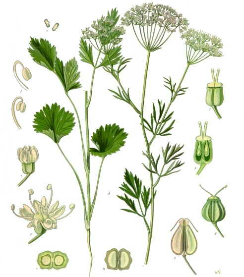 Anise, from Koehler's Medicinal-Plants 1887